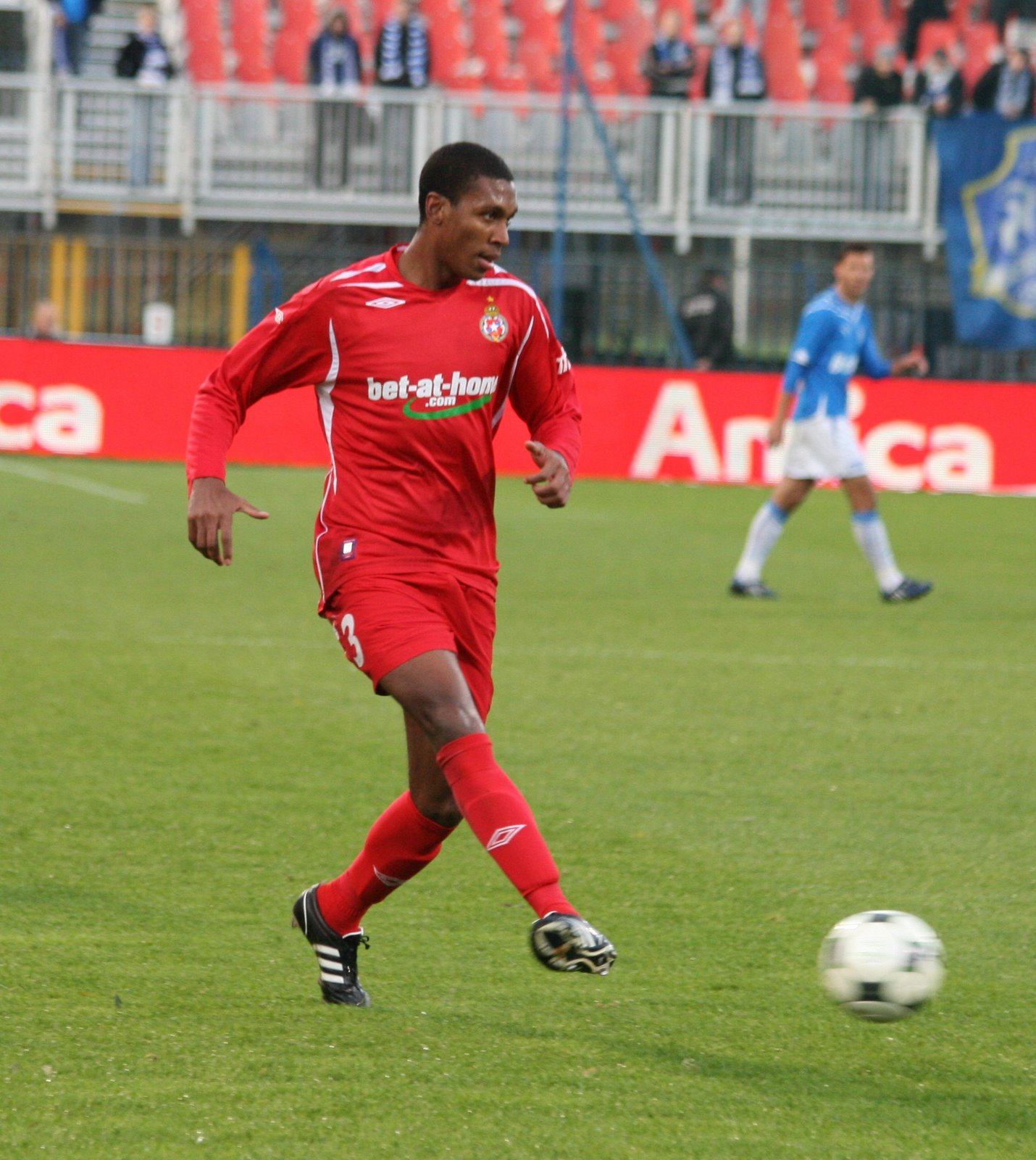 Brazilian football player, Marcelo Guedes